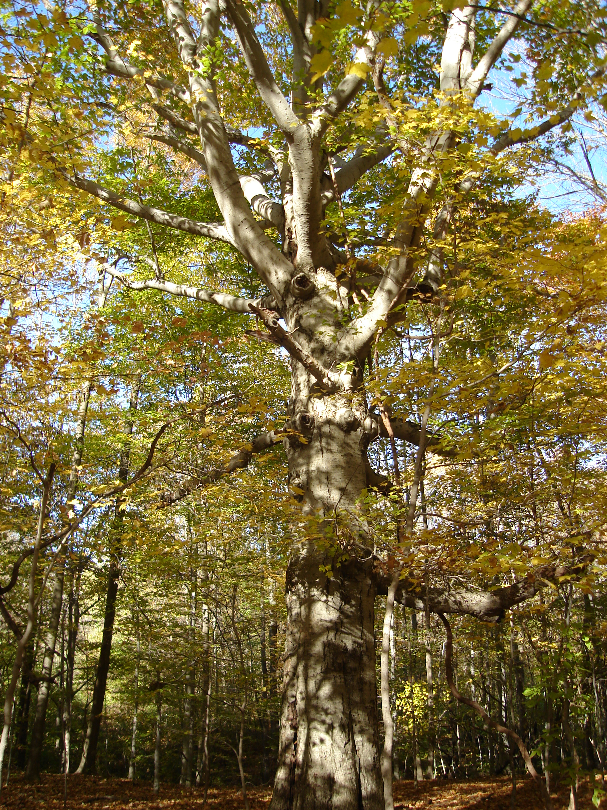 Beech in Autumn, Hueston Woods, Oxford, Ohio, meanwhile broken down, see Monumental Trees